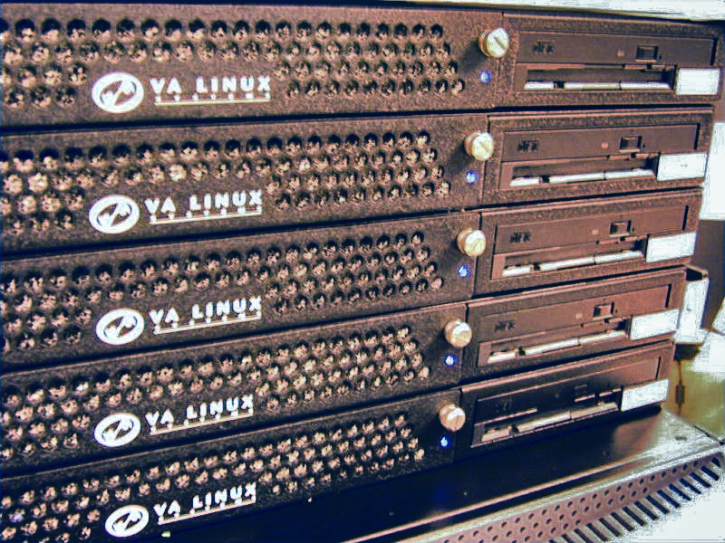 Server